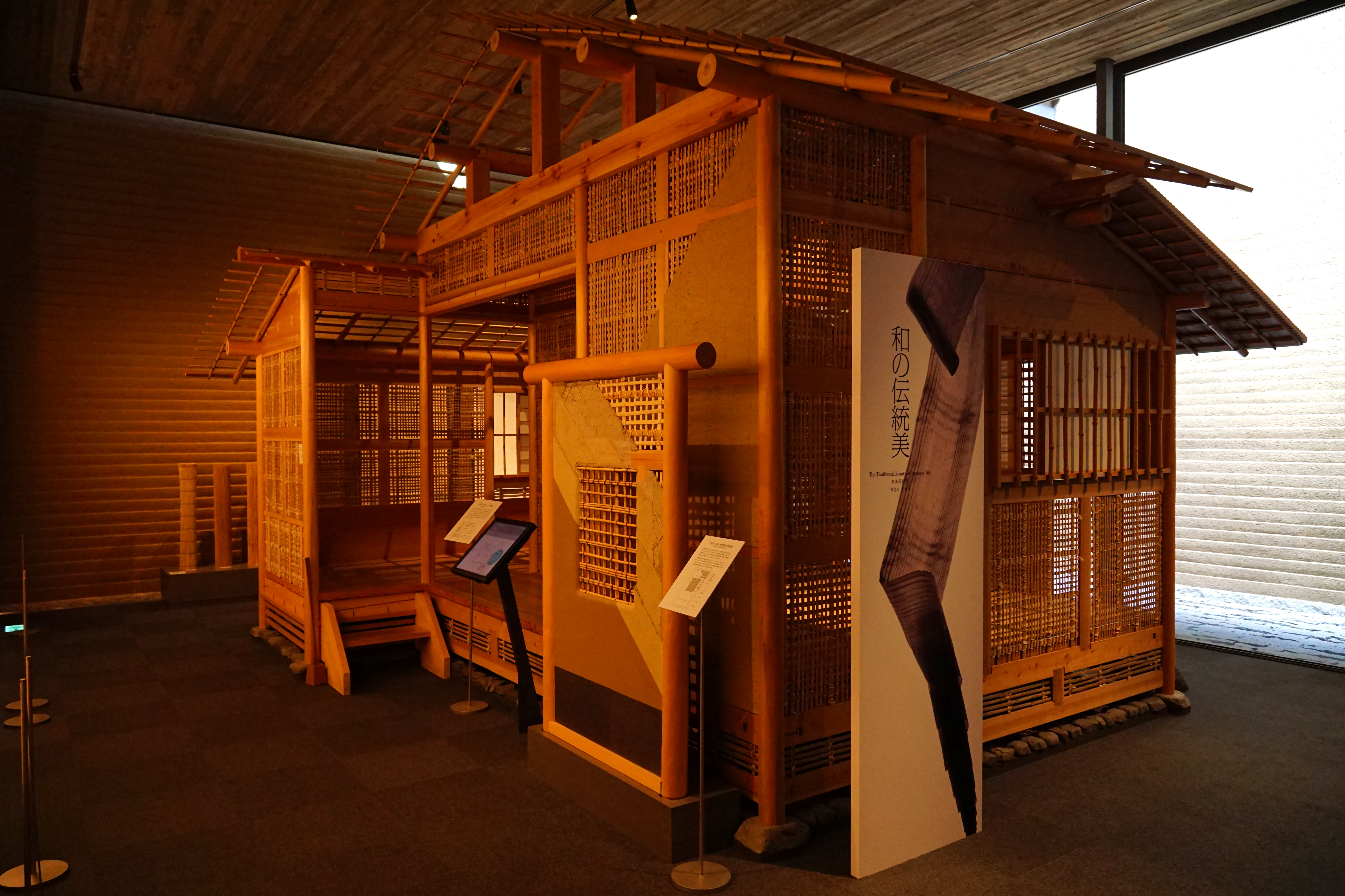 Takenaka Carpentry Tools Museum in Kobe, Hyogo prefecture, Japan.